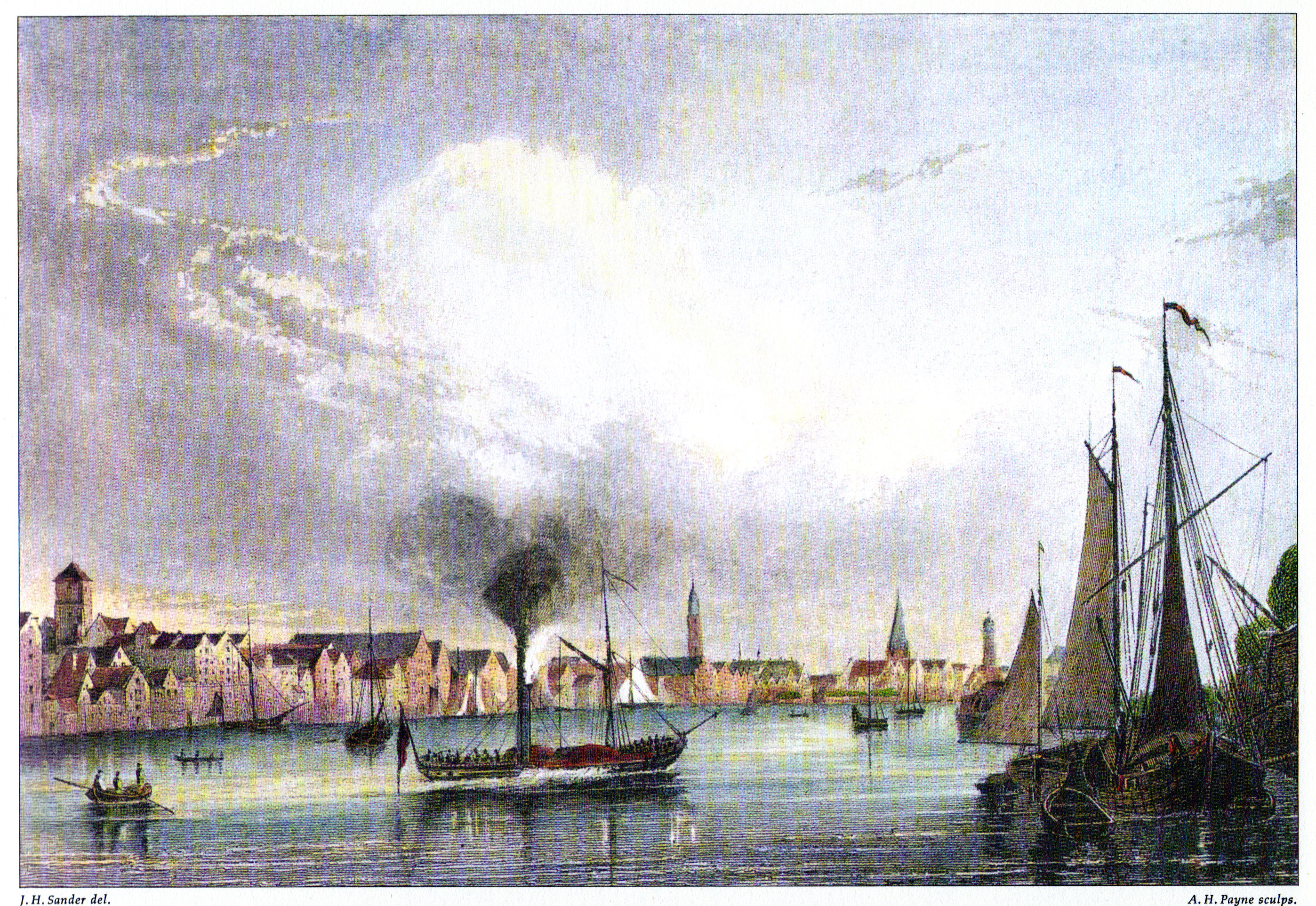 Bremen and the Weser river around 1840. Artists: Johann Heinrich Sander (1810–1865) Description German lithographer and illustrator Date of birth/death12 March 18101865-01-21Location of birth/deathHamburg?Work locationHamburgAuthority control VIAF: 40489974 GND: 130678163 (drawing), Albert Henry Payne (1812–1902) Alternative namesab 1846 Inhaber des Verlages Englische Kunstanstalt A. H. Payne (Leipzig und Dresden)Description English engraver, painter, illustrator and publisher Date of birth/death14 December 18127 May 1902Location of birth/deathLondonLeipzigWork periodsince 1839 in LeipzigWork locationLeipzig, Dresden, HamburgAuthority control VIAF: 10112620 LCCN: nr96026120 GND: 116070803 BnF: cb14792746h ULAN: 500028281 ISNI: 0000 0001 1593 7814 WorldCat (engraving)